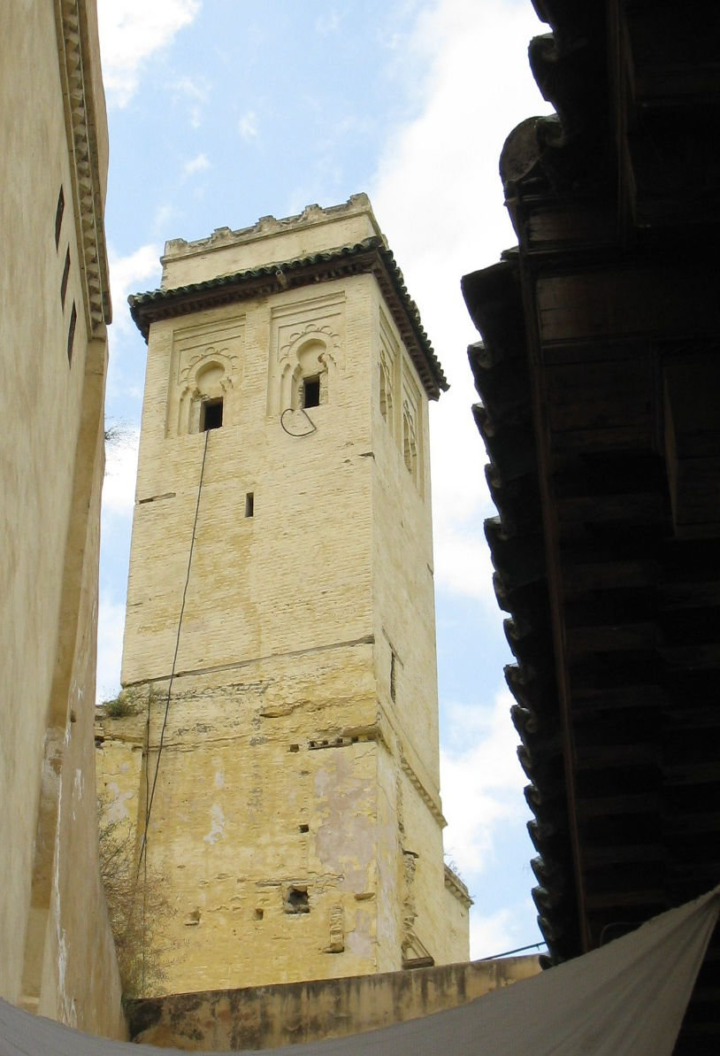 Borj Neffara (Tower of the Trumpeters), Fes, Morocco. The tower looks like a minaret but was actually used for astronomical observation. It is located very close to the minaret of the Qarawiyyin Mosque and to its Dar al-Muwaqqit (house of the timekeeper).